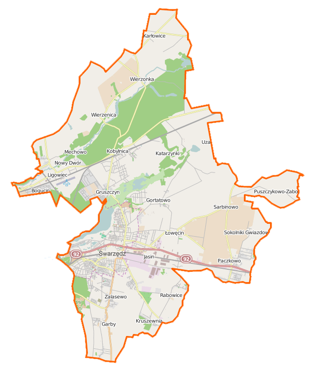 Map of Gmina Swarzędz, Poland This map of Swarzędz (gmina) was created from OpenStreetMap project data, collected by the community. This map may be incomplete, and may contain errors. Don't rely solely on it for navigation.